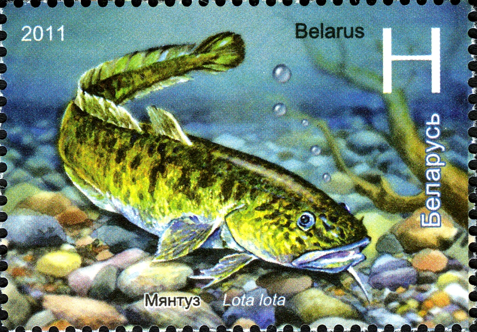 Stamp of Belarus